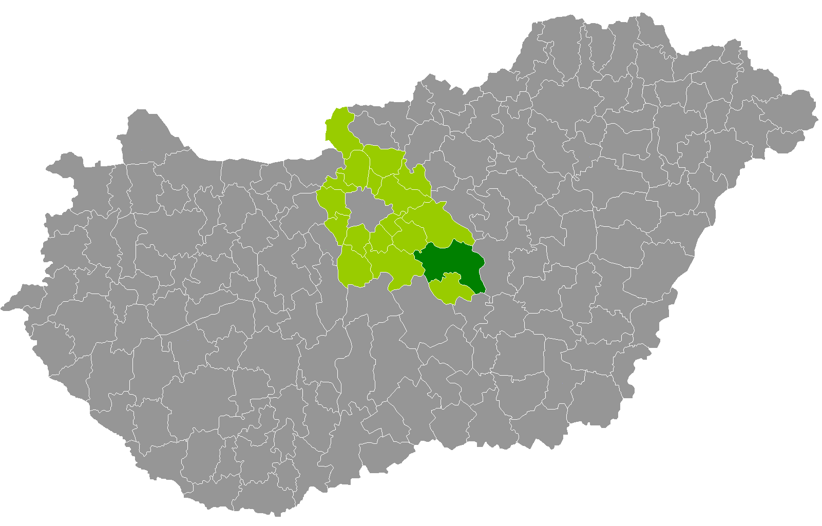 Location of Cegléd District, Pest, Hungary